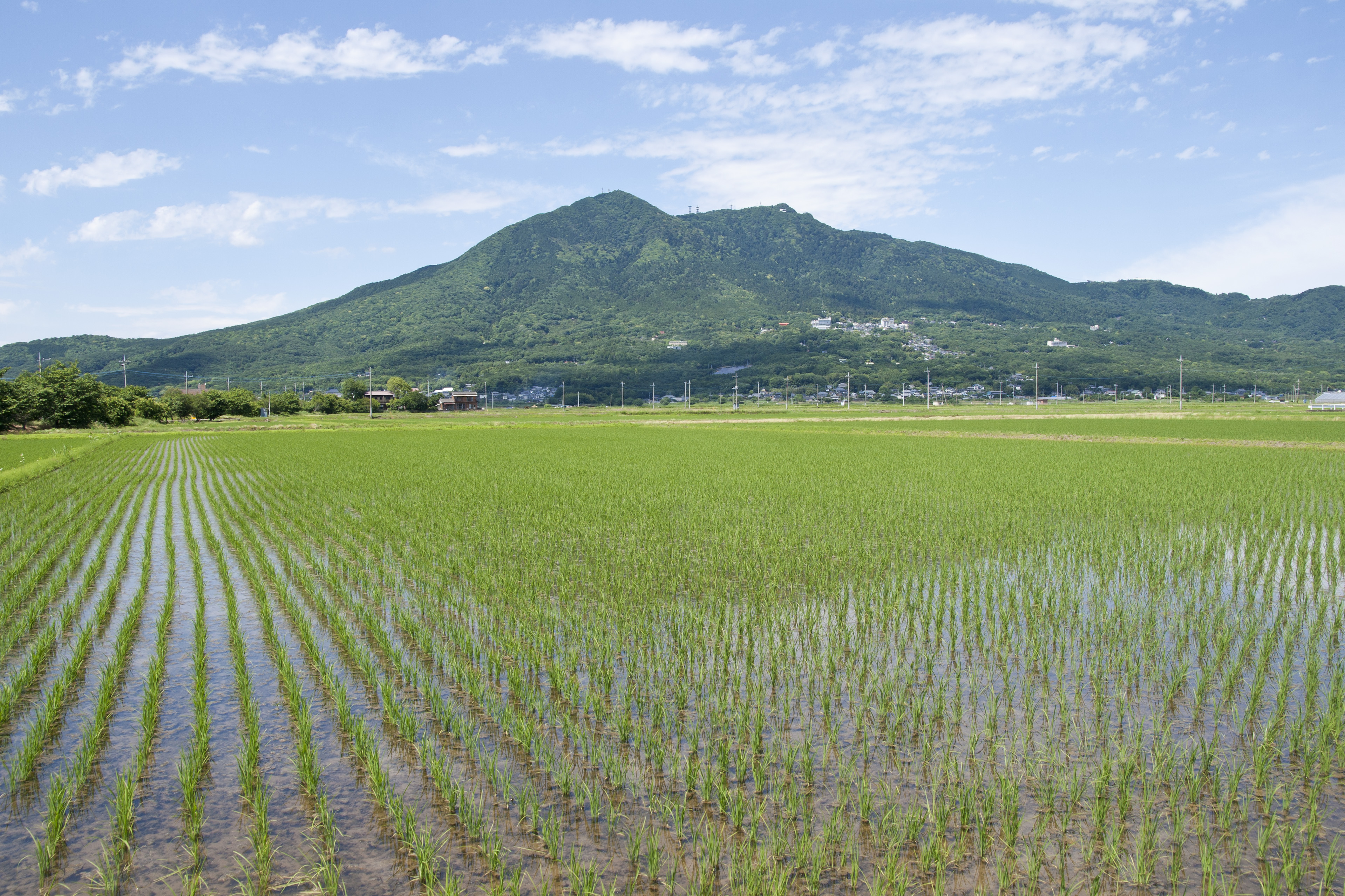 Mount Tsukuba as seen from Urushijo, Tsukuba City, Ibaraki Pref., Japan.